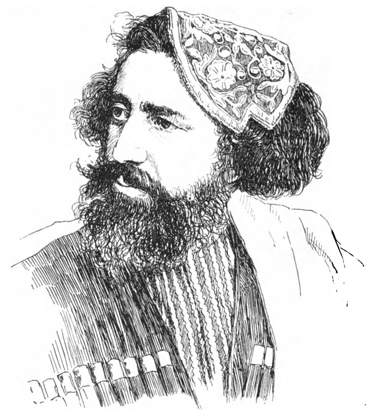 Extracted picture from page 25 of the source book; picture caption: „Vornehmer Einwohner aus Imereth mit dem Papanaki bekleidet.“